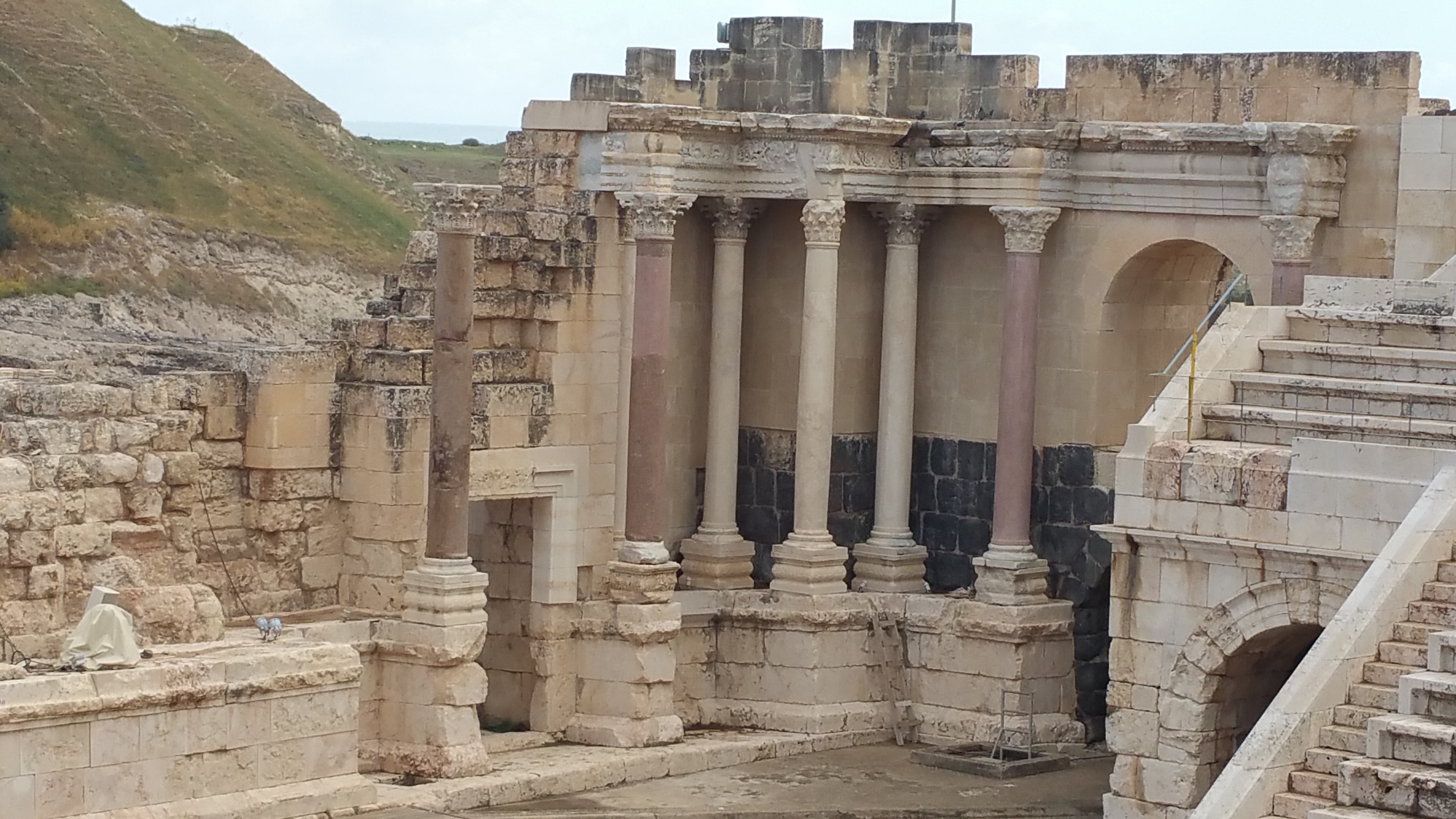 Beit She'an Scythopolis